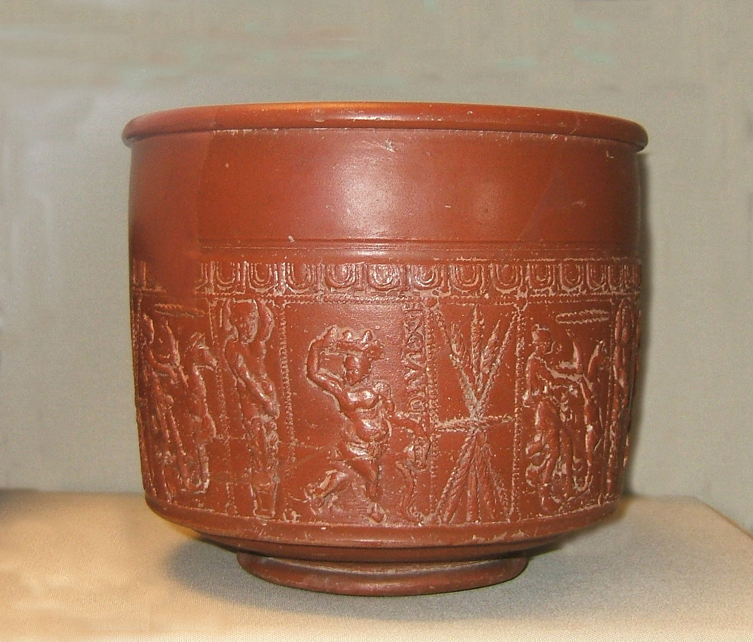 Central Gaulish samian ware vase of form Dragendorff 30, with the name-stamp of the potter Divixtus in the decoration. AD 150-190. Ht.15 cm. British Museum, London. PE 1853.1-10.5